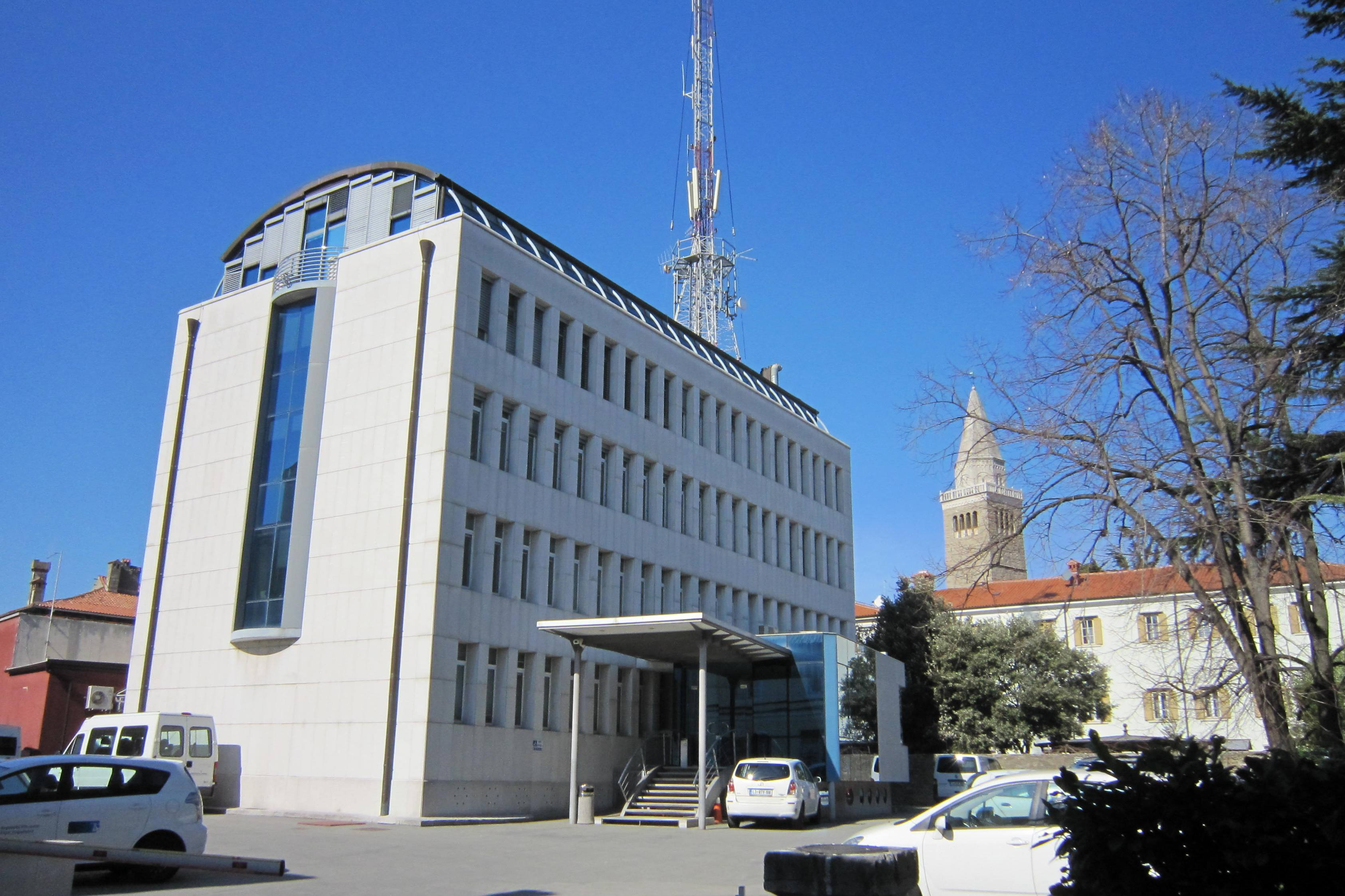 sede radio capodistria